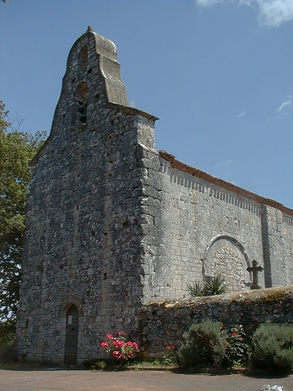 Marsalès (Dordogne)